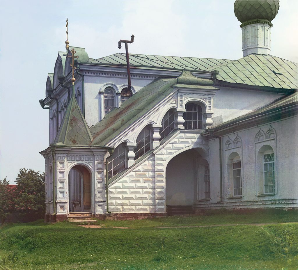 Porch of the Church of St. Nicholas Pensky (the winter church of the Church of the Fyodorovskaya Mother of God). Yaroslavl, 1911